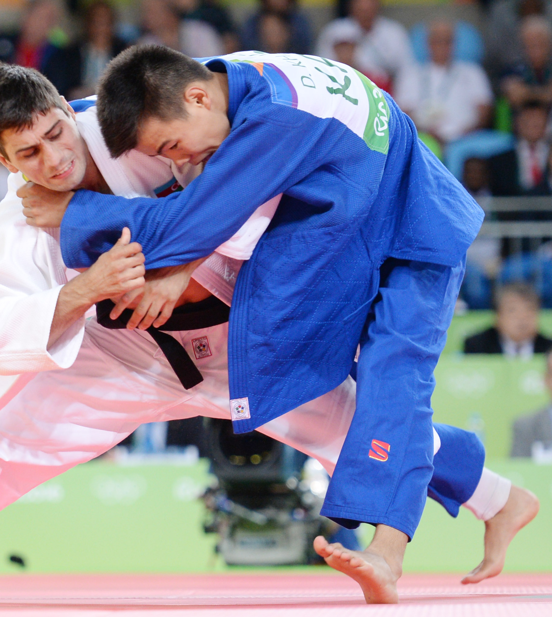 Judo at the 2016 Summer Olympics, Orujov vs Khamza